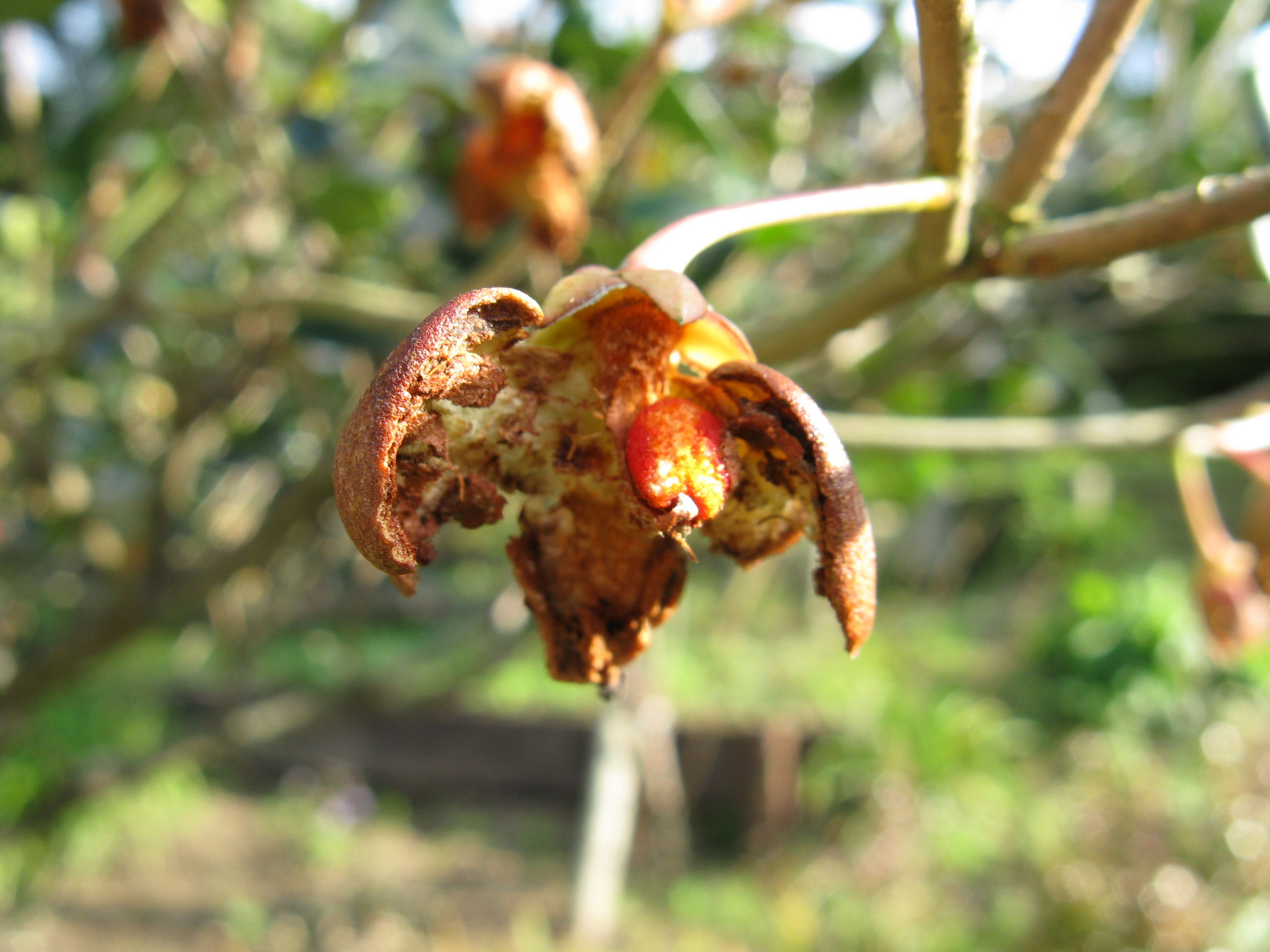 Ternstroemia gymnanthera